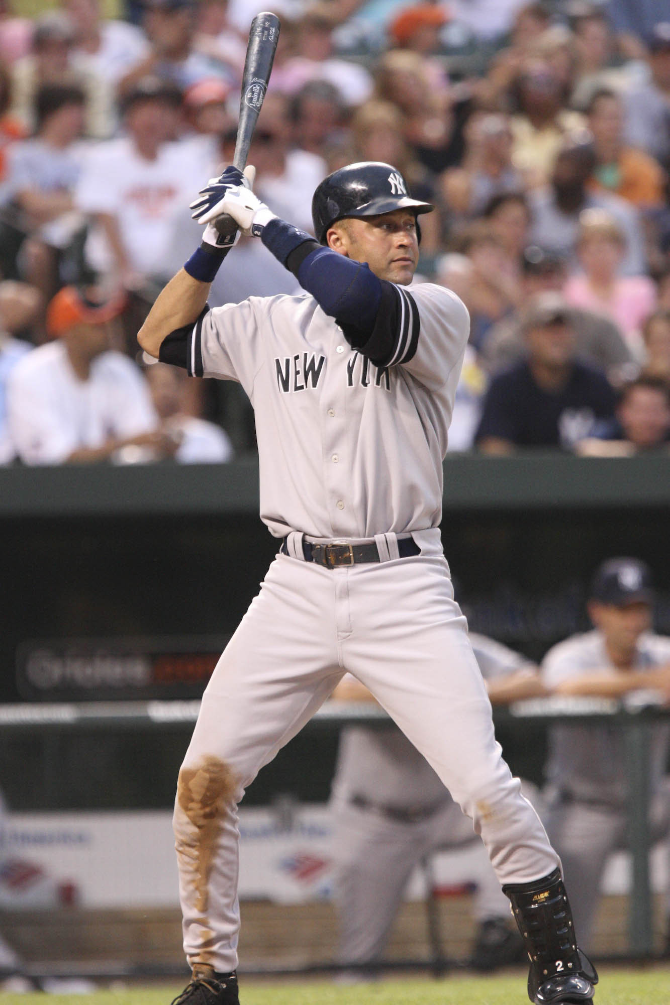 New York Yankees Derek Jeter batting against the Baltimore Orioles during a baseball game Thursday, June 28, 2007 in Baltimore, Maryland.